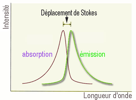 Simple scheme of the Stokes shift